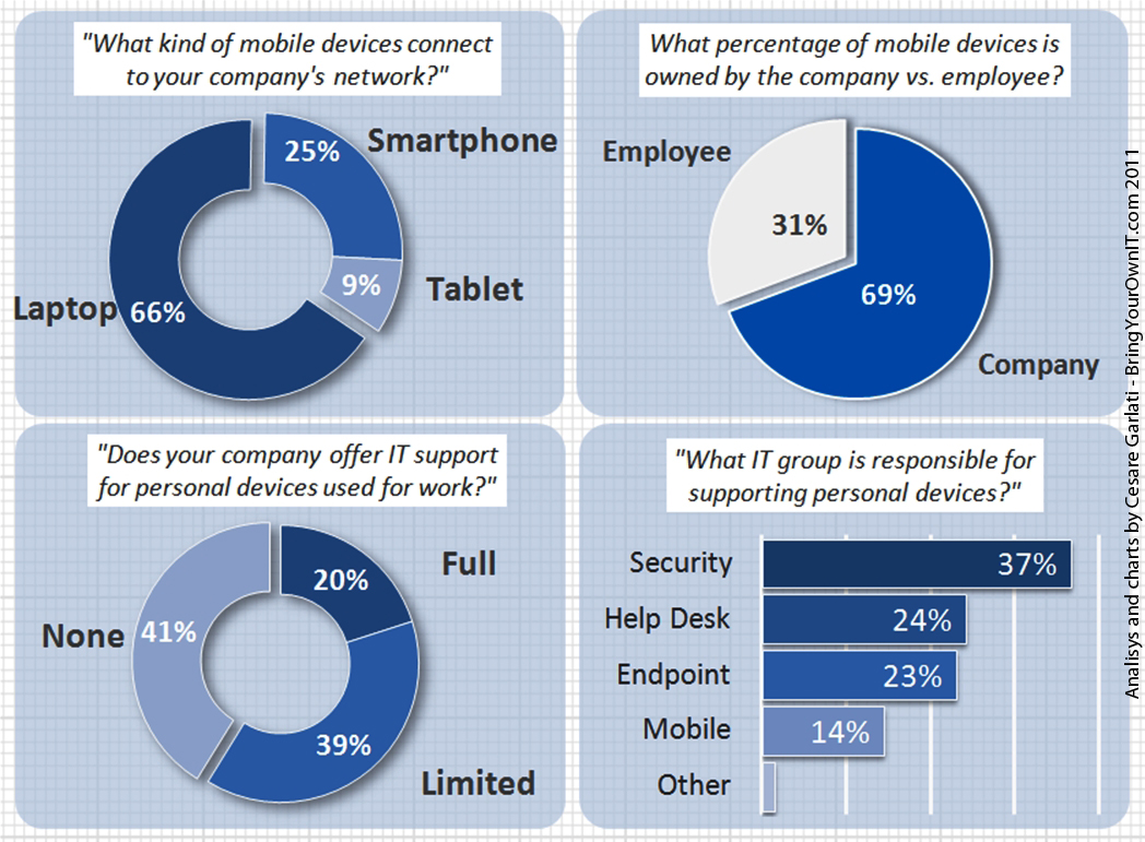 A strategic approach to Consumerization starts with providing IT support to personal devices - 31% of the mobile devices connecting to the corporate network are owned by the employees in organizations that open up to consumerization: 66% are laptops, 25% smartphones and 9% are tablets. Considering that consumer smartphones and tablets are likely to run non-standard operating systems – such as Android and Apple iOS – Taking a strategic approach to consumerization starts with providing IT support to these employees for their personal devices when used for work related activities. The majority of the organizations (59%) already provide full or limited support: within the IT department, Security Teams (37%) are the most likely to provide this kind of service, Help Desk (24%) and Endpoint Management (23%) are quite common while some organizations also have dedicated Mobility Teams (14%).